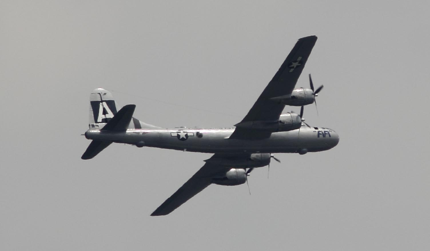 Fifi the last of the flying B-29s, from the DC Flyover, 5/8/2015.